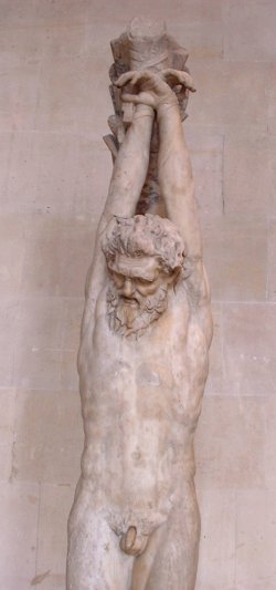 Marsyas hanging. Marble, Roman artwork, Imperial Era (1st-2nd centuries CE). Found in Rome, Italy.